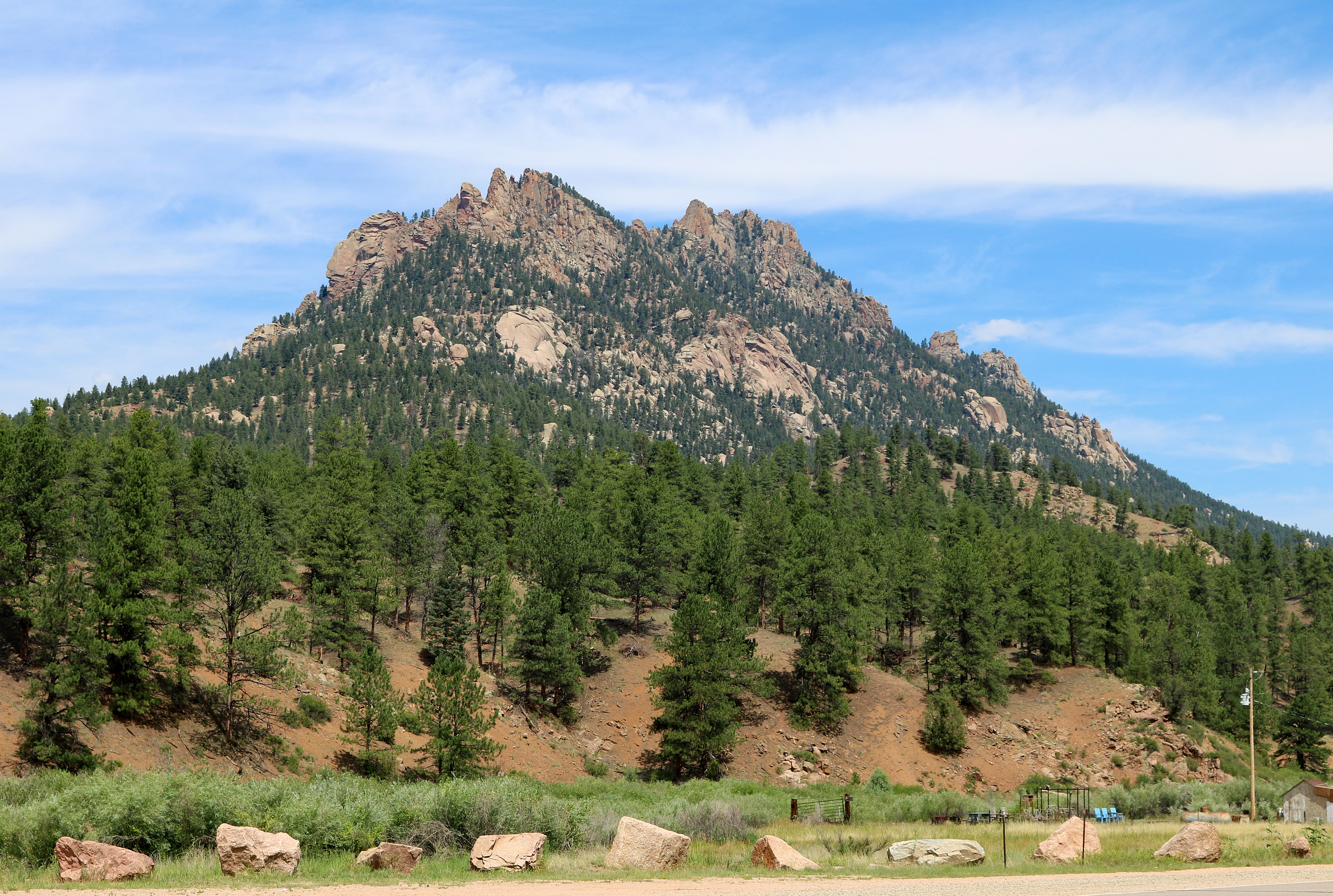 Long Scraggy Peak, elevation 8,796 feet (2,681 m), in Jefferson County, Colorado.